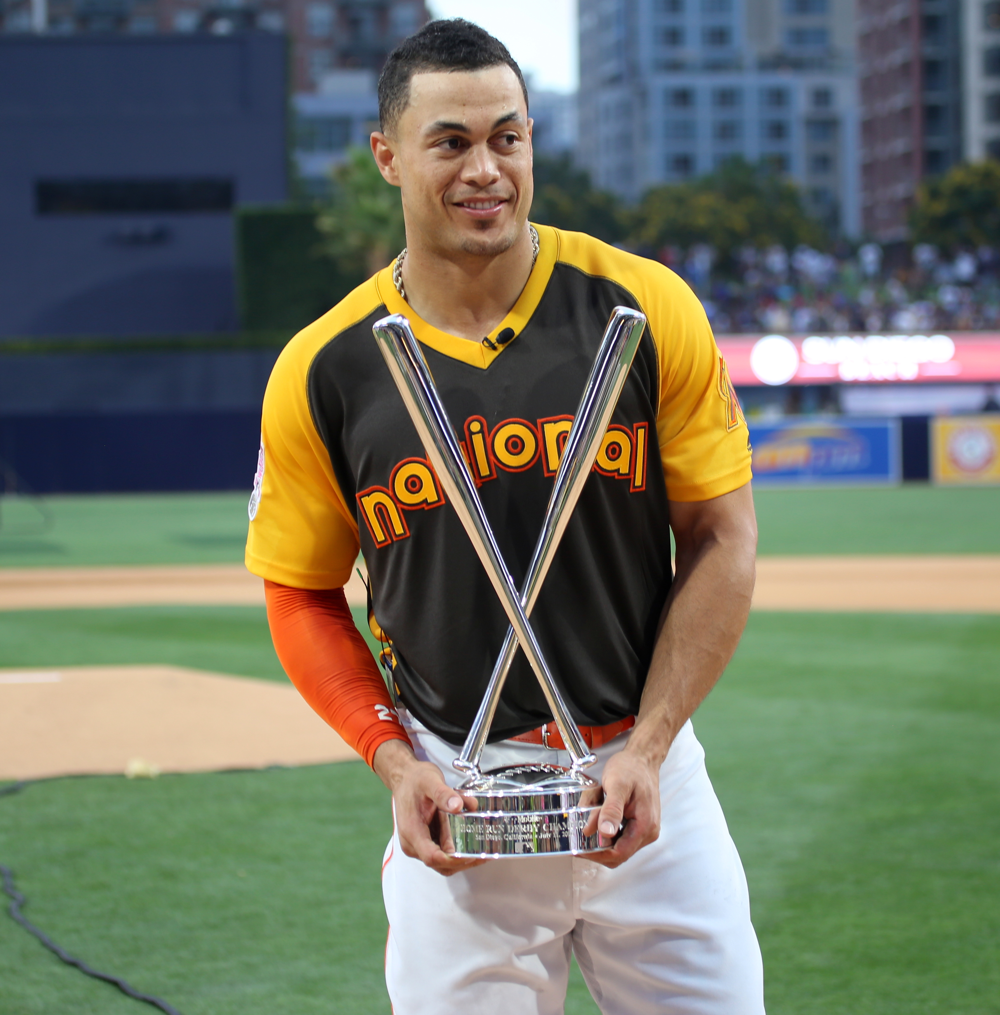 Giancarlo Stanton holds up the T-Mobile #HRDerby trophy.